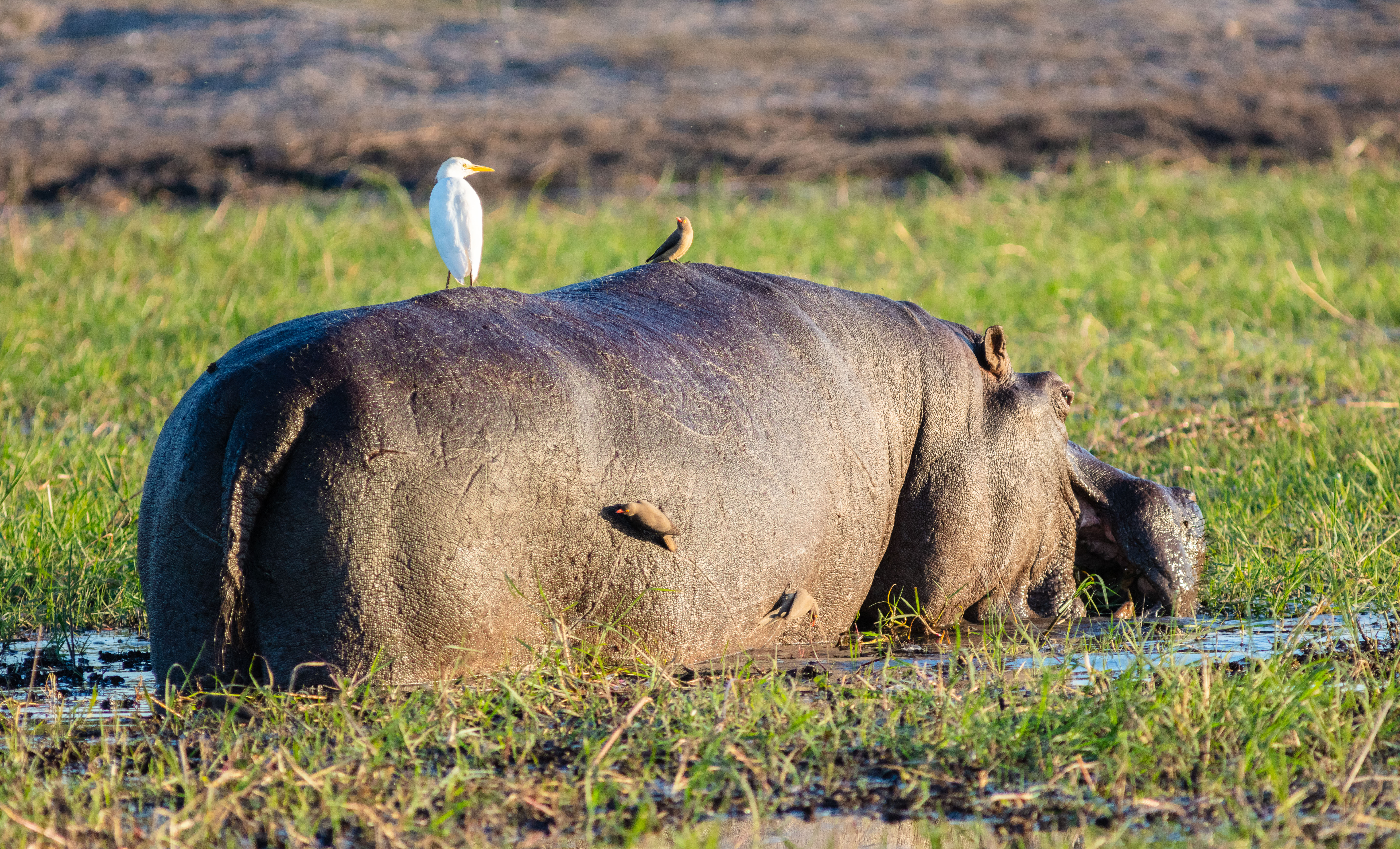 Hippo (Hippopotamus amphibius), Chobe National Park, Botswana